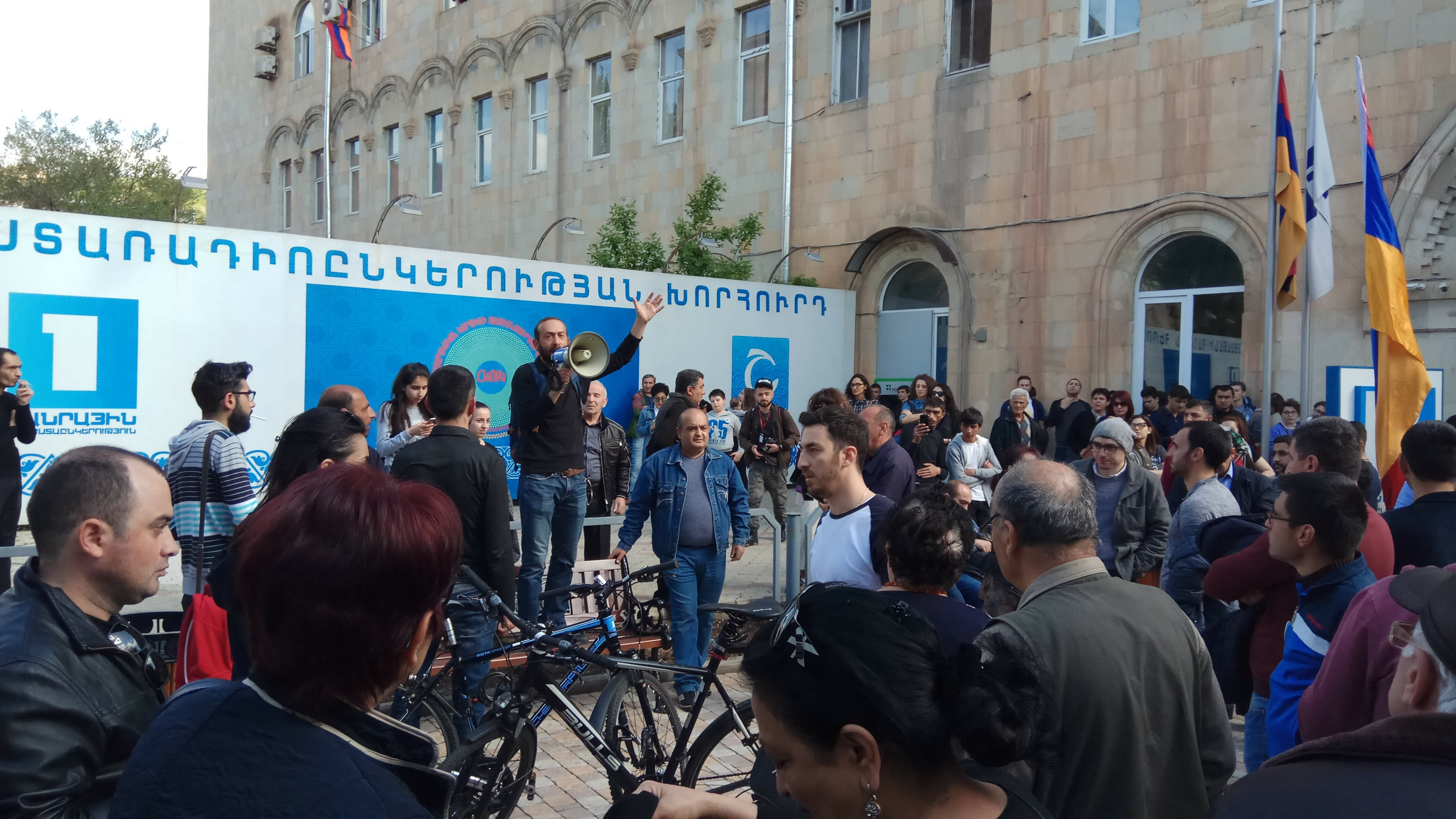 Ararat Mirzoyan